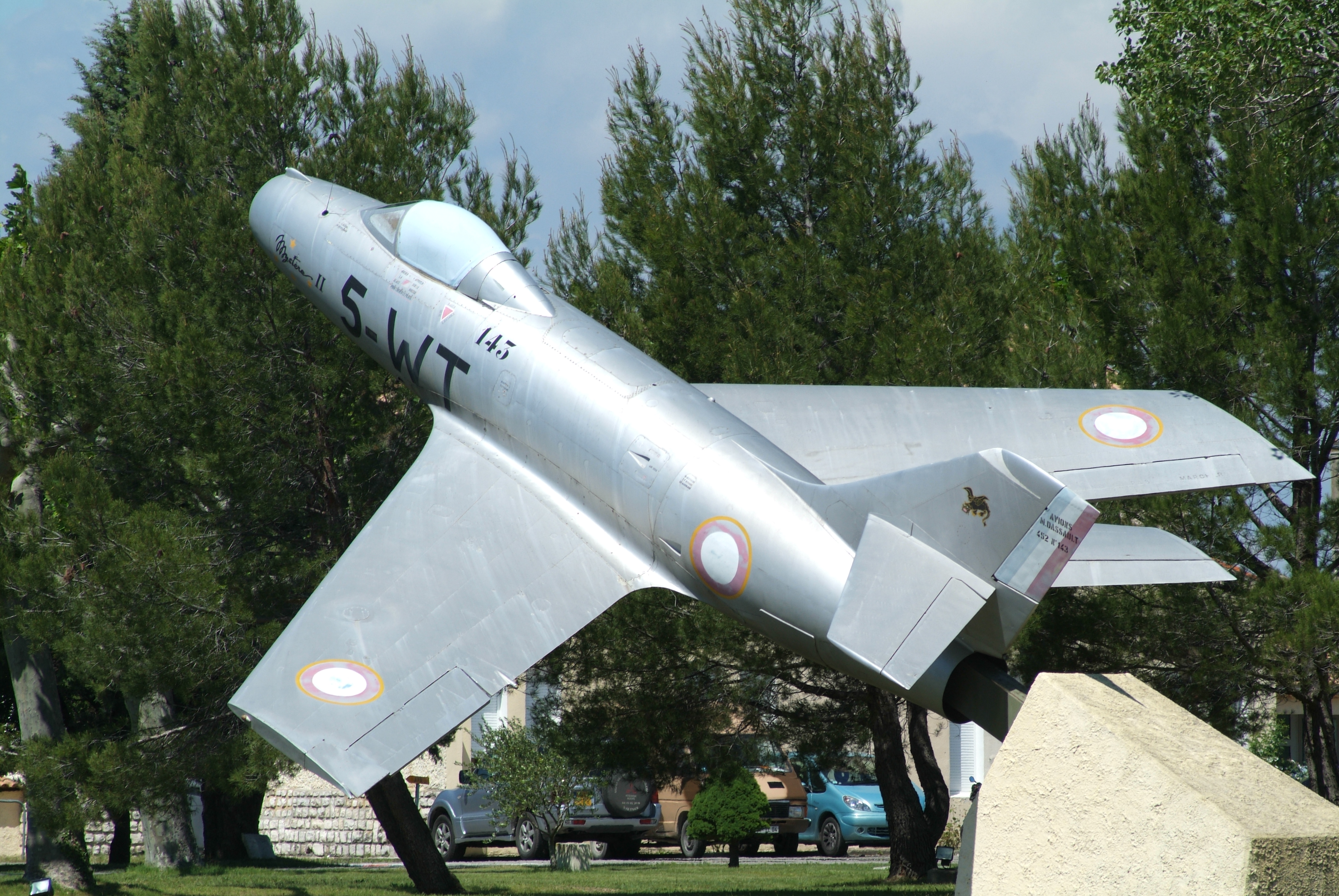 AMD 452 Mystère IIC Orange Air Base open day in May 2008 The base has a nice collection of old aircraft as gate guards, or "Pots de fleurs" as I think the French call them. One of the first indigenous French fighter/bombers.